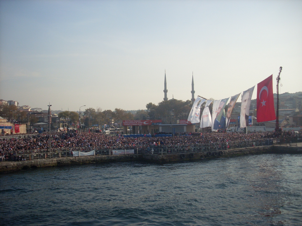 Marmaray opening ceremony at Üsküdar on 29 Oct 2013